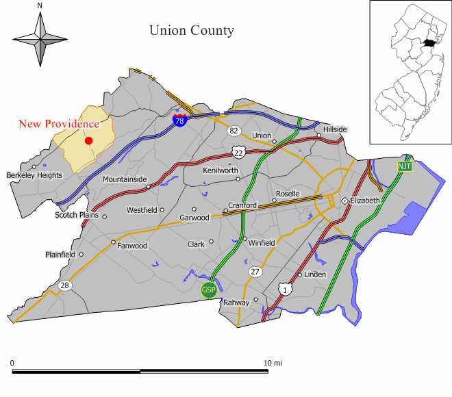 Source: Jim Irwin Original work by Jim Irwin, December 2005.